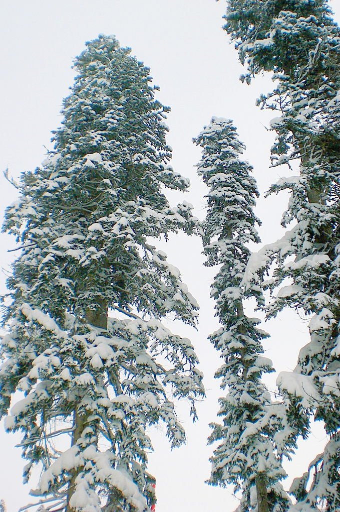 Abies nordmanniana in winter snow, Dombay, Karachayevo-Cherkesiya, Caucasus, 43°17'26"N 41°37'25"E, 1590 m altitude.